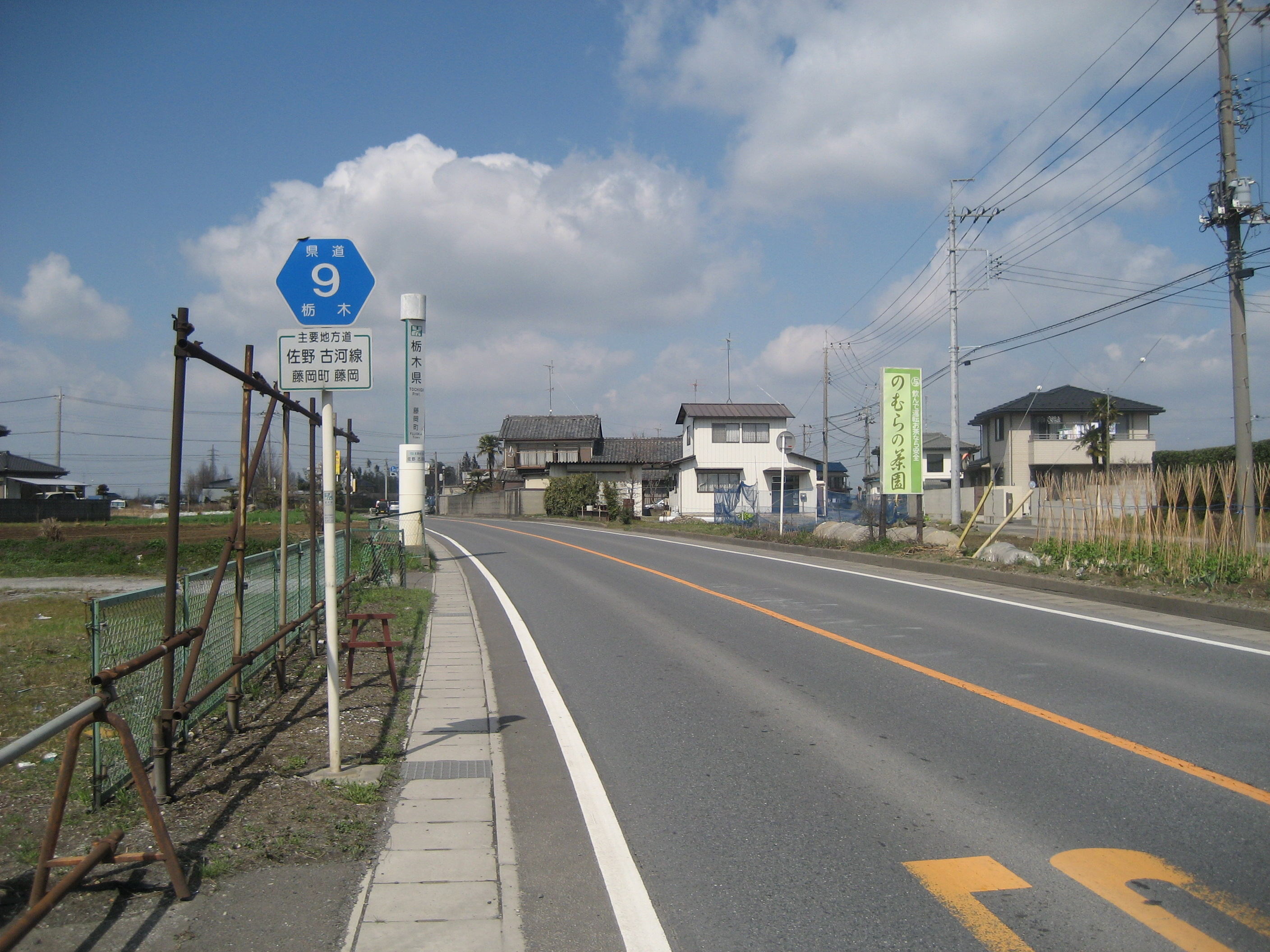 The Tochigi Prefectural Road Route 9 in Tochigi City